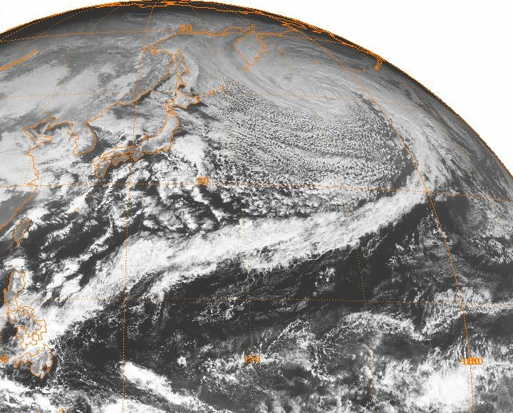 The bomb cyclone in the northwest Pacific Ocean on January 16, 2013.